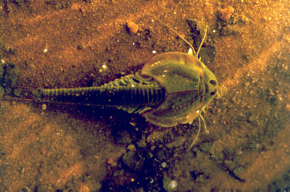 Adult tadpole shrimp, Triops longicaudatus. from